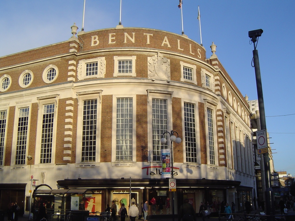 Bentalls store, Kingston on Thames, original facade